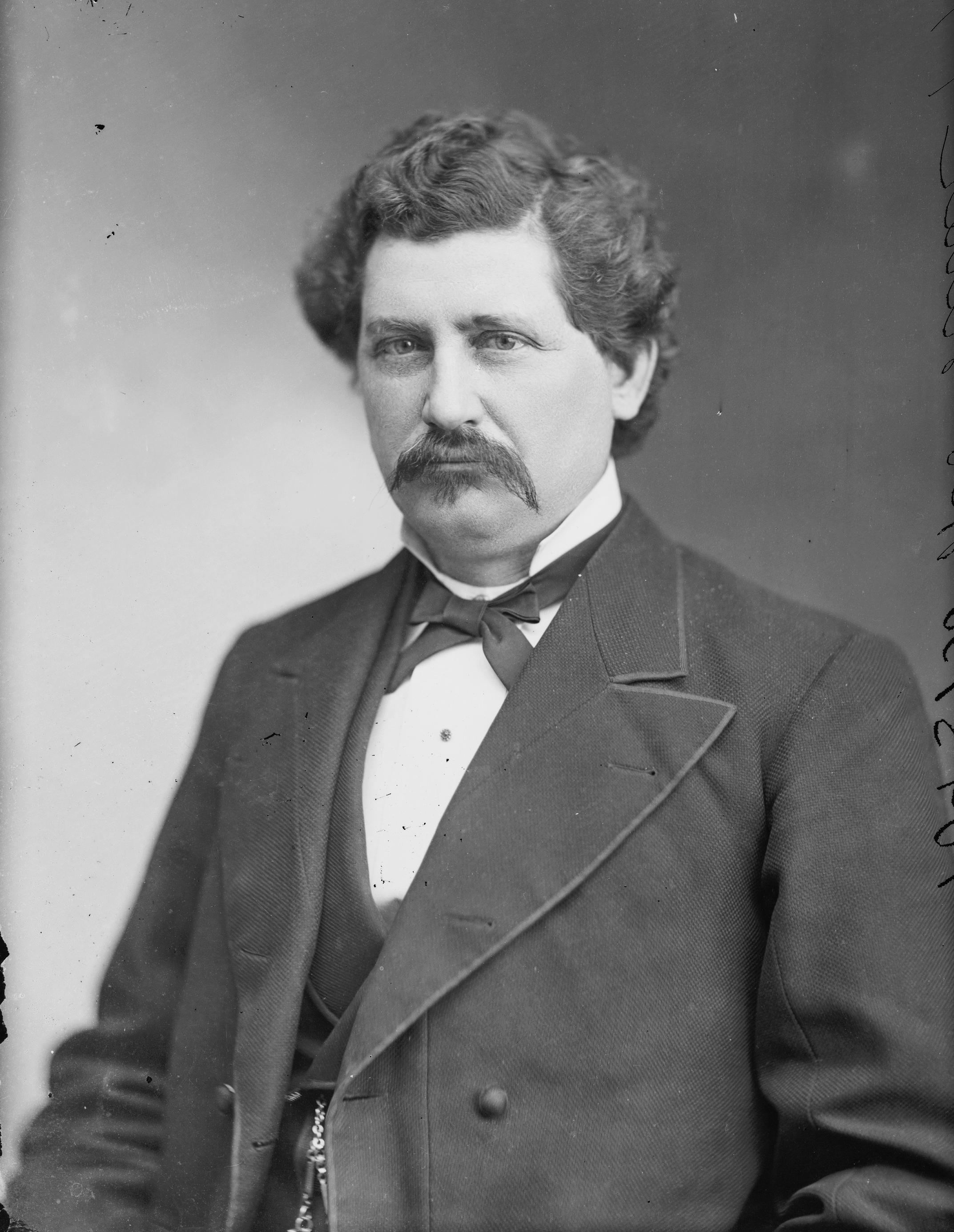 Mark S. Brewer. Library of Congress description: "Brewer, Hon. M.S. of Mich. Appointed a member of U.S. Civil Service Commission by Pres. McKinley on Jan. 18, 1898"